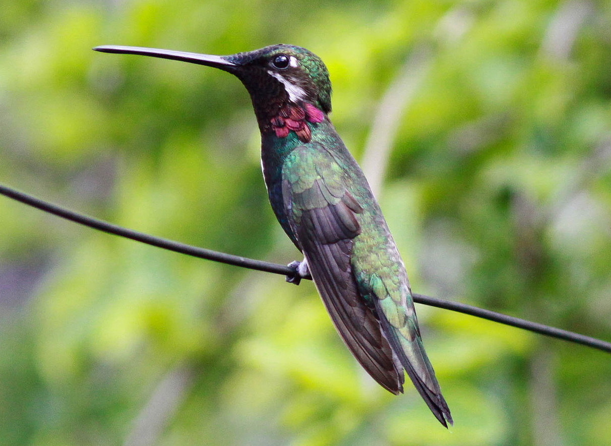 Heliomaster squamosus